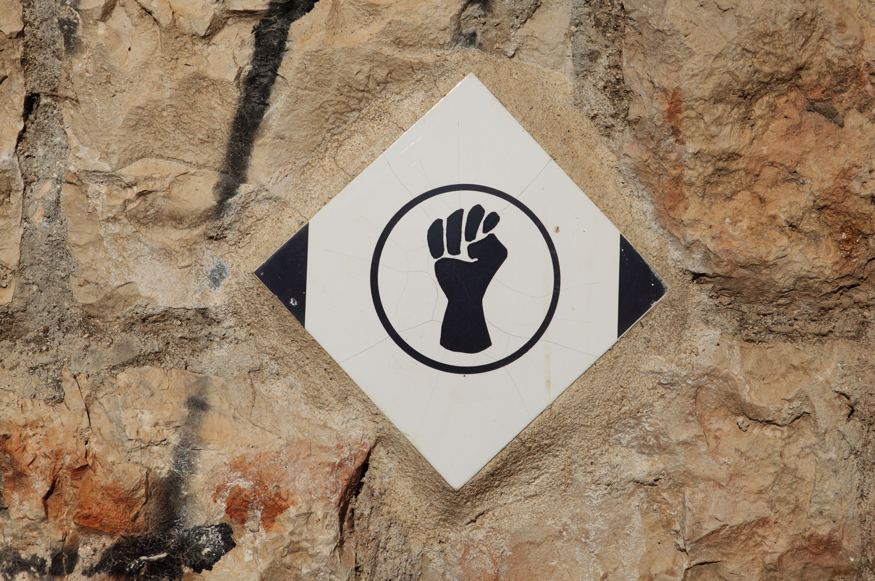 Jerusalem, Musrara - black panthers שכונת מורשה (מוסררה) ירושלים Jerusalem